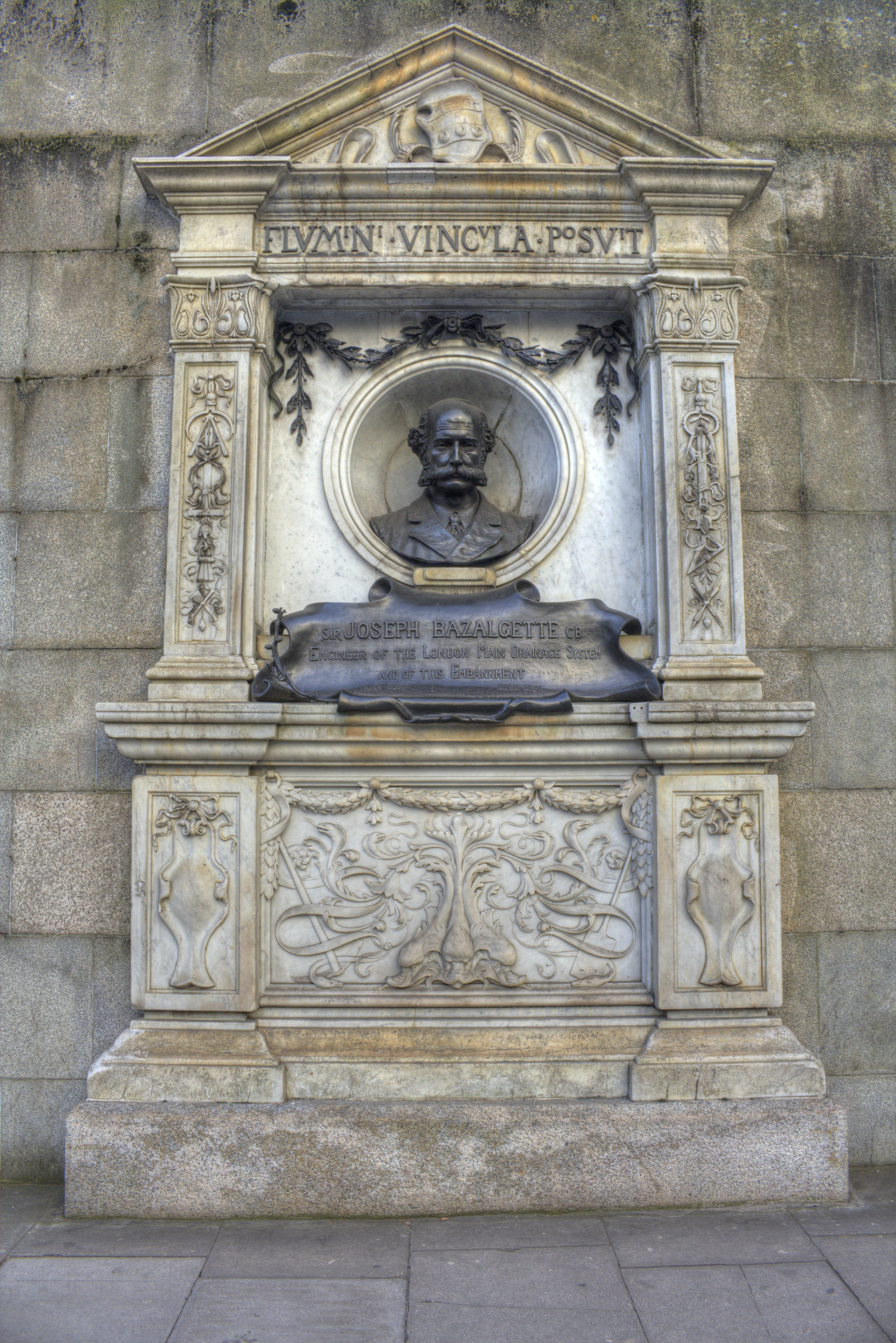 Joseph Bazalgette memorial, Victoria Embankment, London